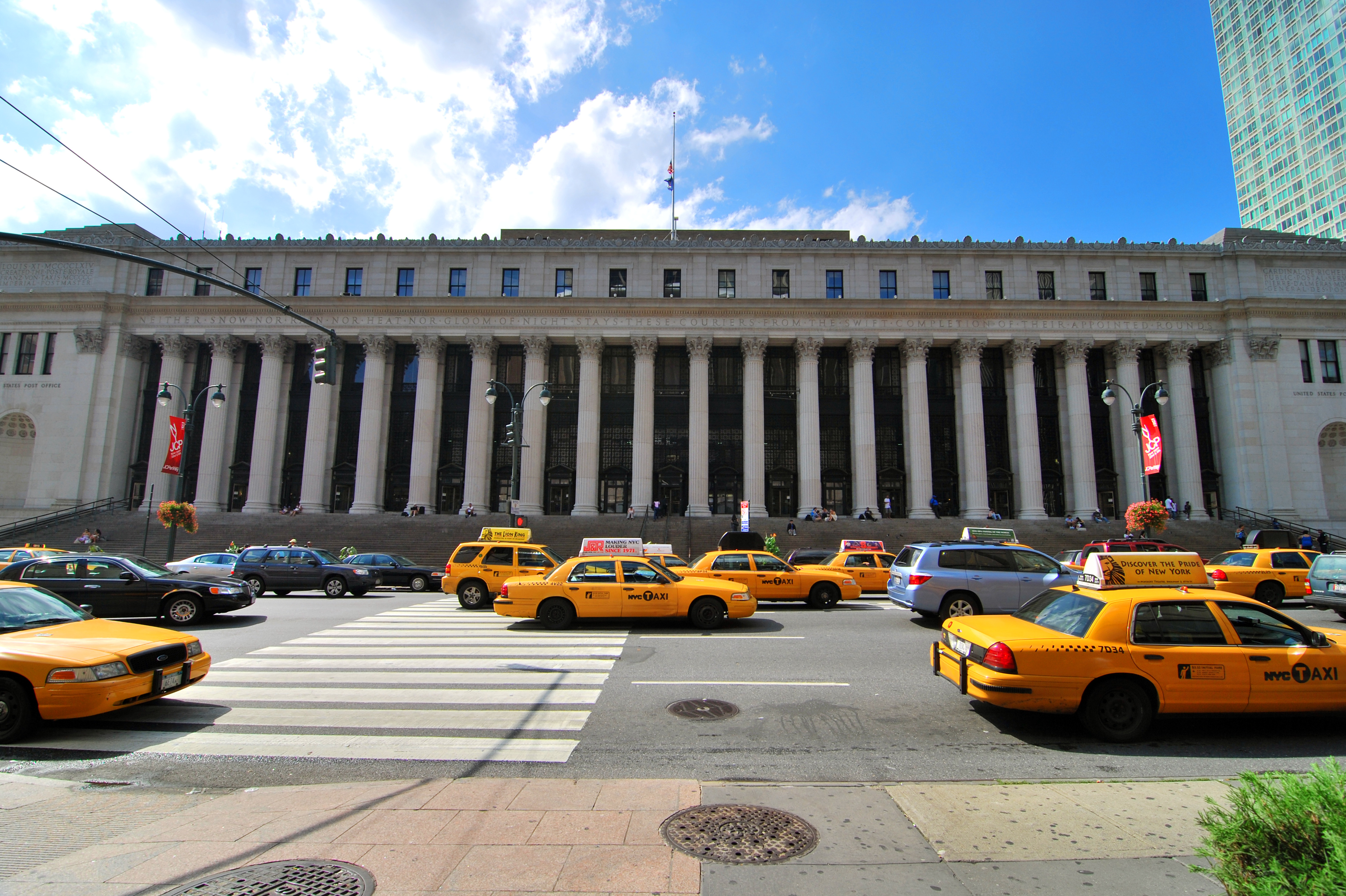 James Farley Post Office Manhattan New York City 2009